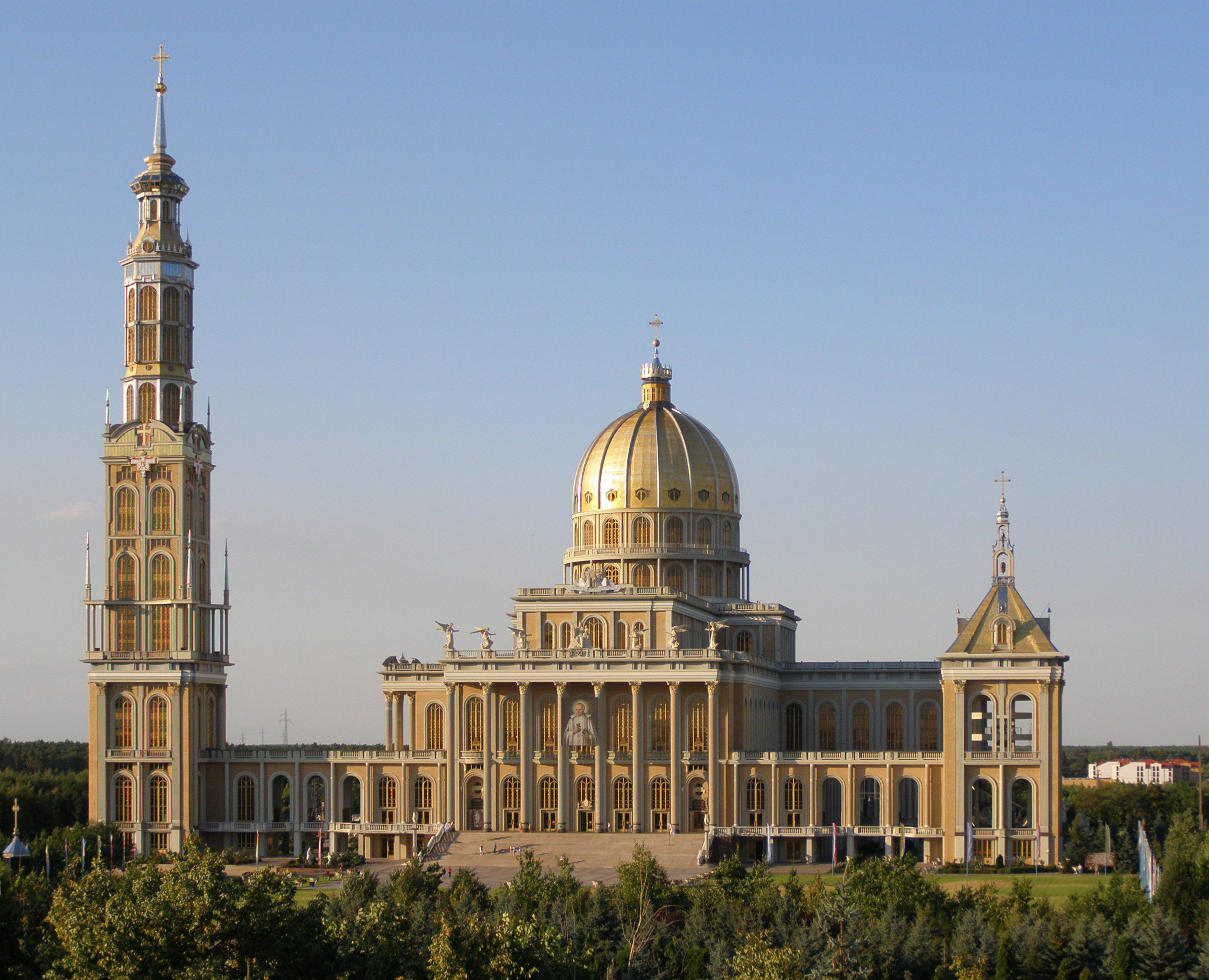 Basilica in Licheń Stary - the largest church in Poland.